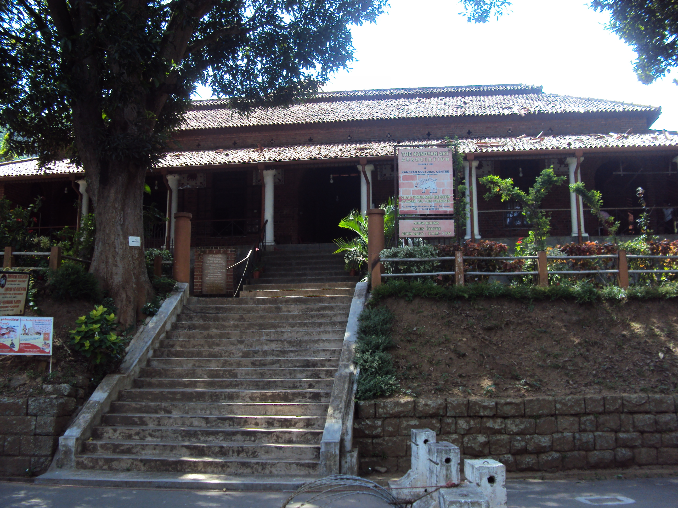 The present building in which the Kandyan Art Association is now housed was a British Military hospital around 1898. Before that it was a stately lakeside residence of the Sinhalese royal household and had undergone some conversions to be transformed into a hospital. But still the building has retained its character though it is believed to be more than 175 years old.